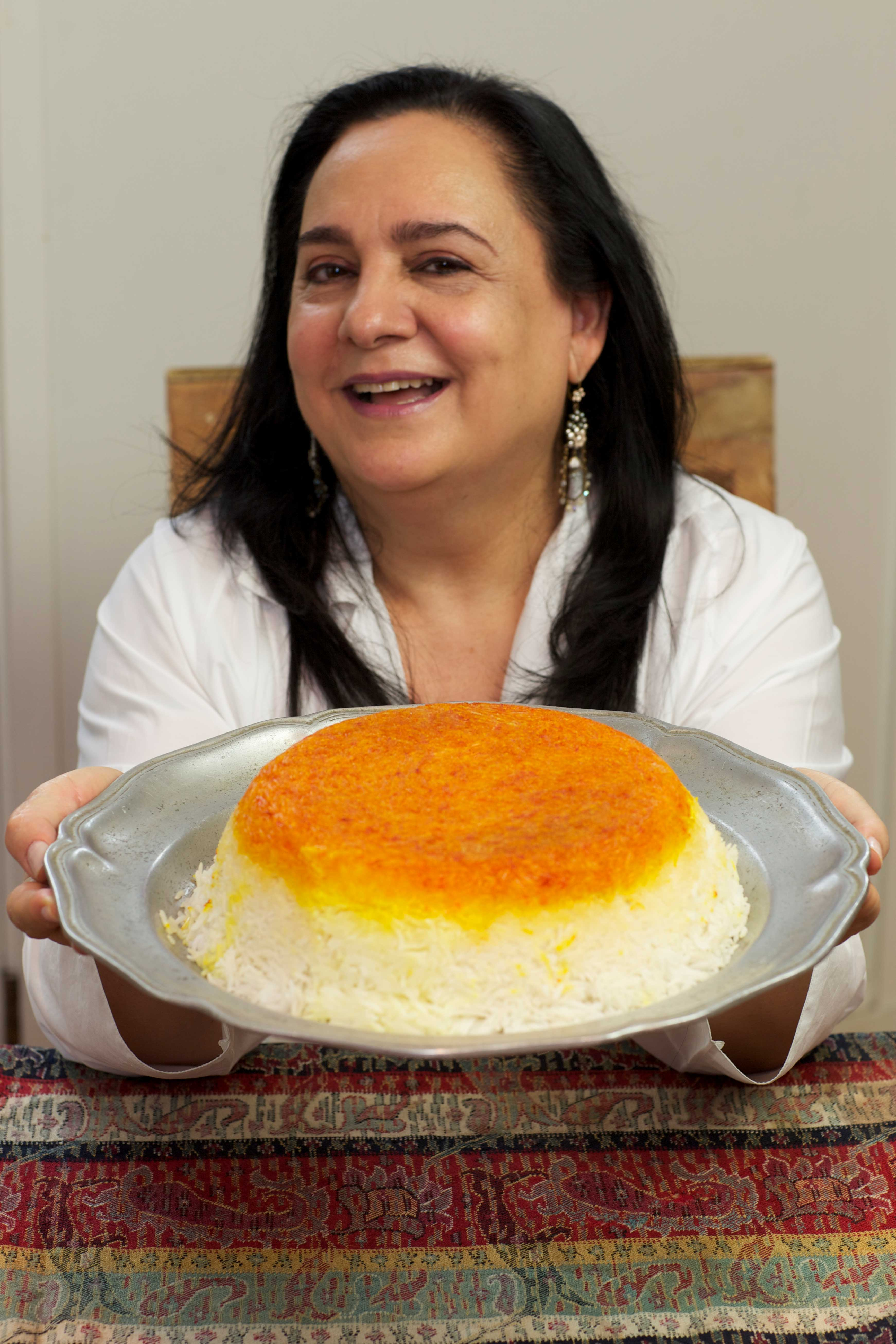 Najmieh Batmanglij with saffron golden crust Persian rice dish (tah dig)